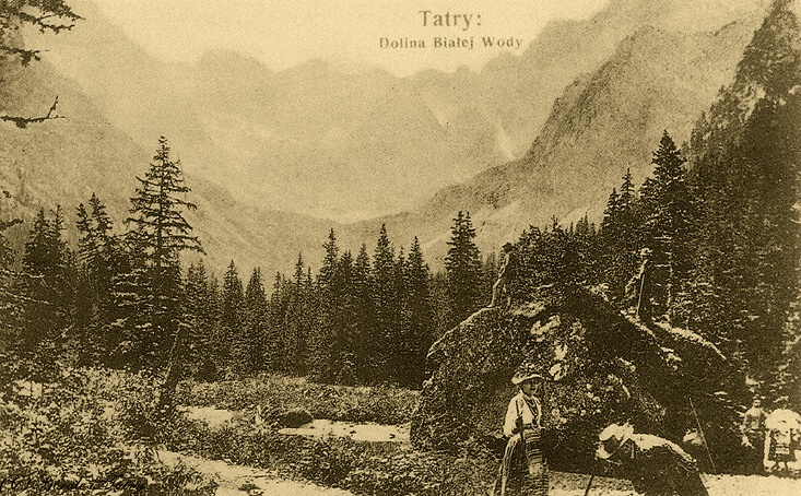 Dolina Białej Wody (en: White Water Valley)